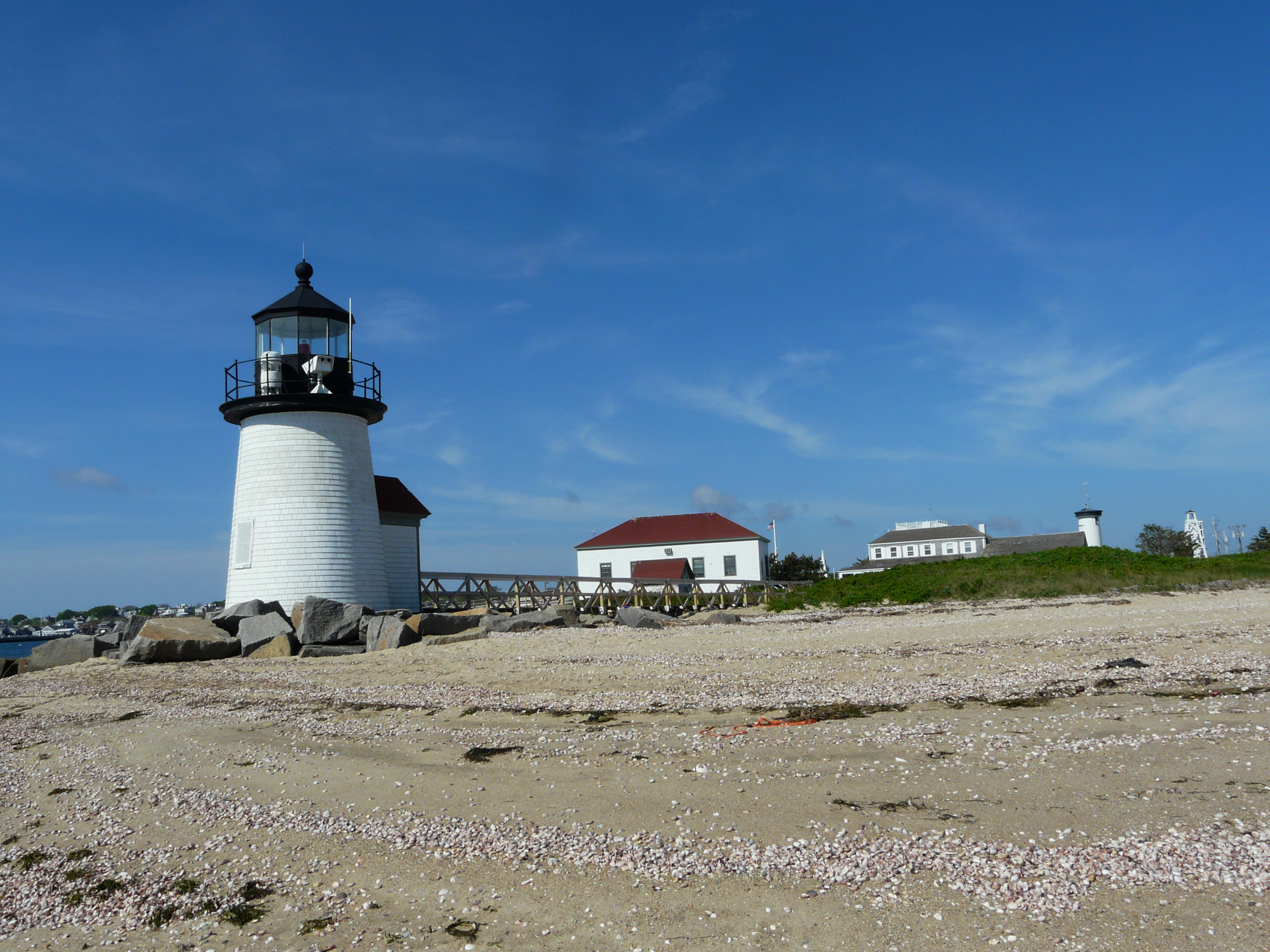 Brant Point Light on the island of Nantucket, Massachusetts, USA